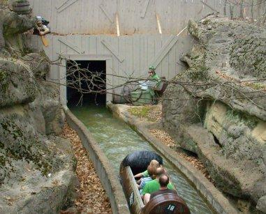 The AP going into the tunnel.